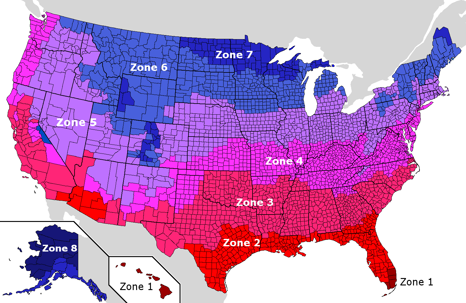 Climate Zones of the United States according to IECC